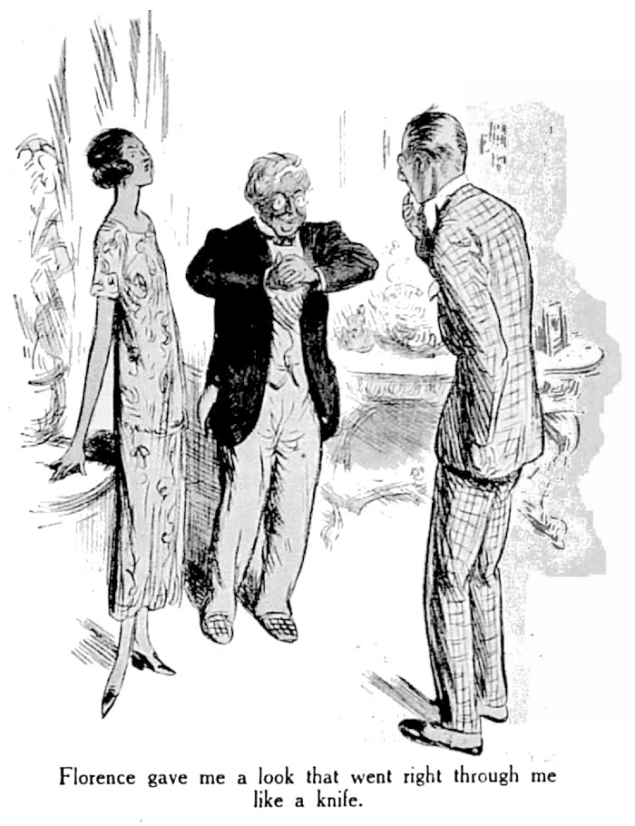 1923 Strand Magazine illustration by A. Wallis Mills for the short story "Jeeves Takes Charge" by P. G. Wodehouse, featuring the characters Florence Craye, Sir Willoughby, and Bertie Wooster.